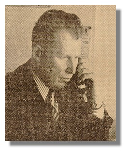 Willis Allen, Chairman of the Board of the National Ham and Eggs Retirement Life Payments Association.